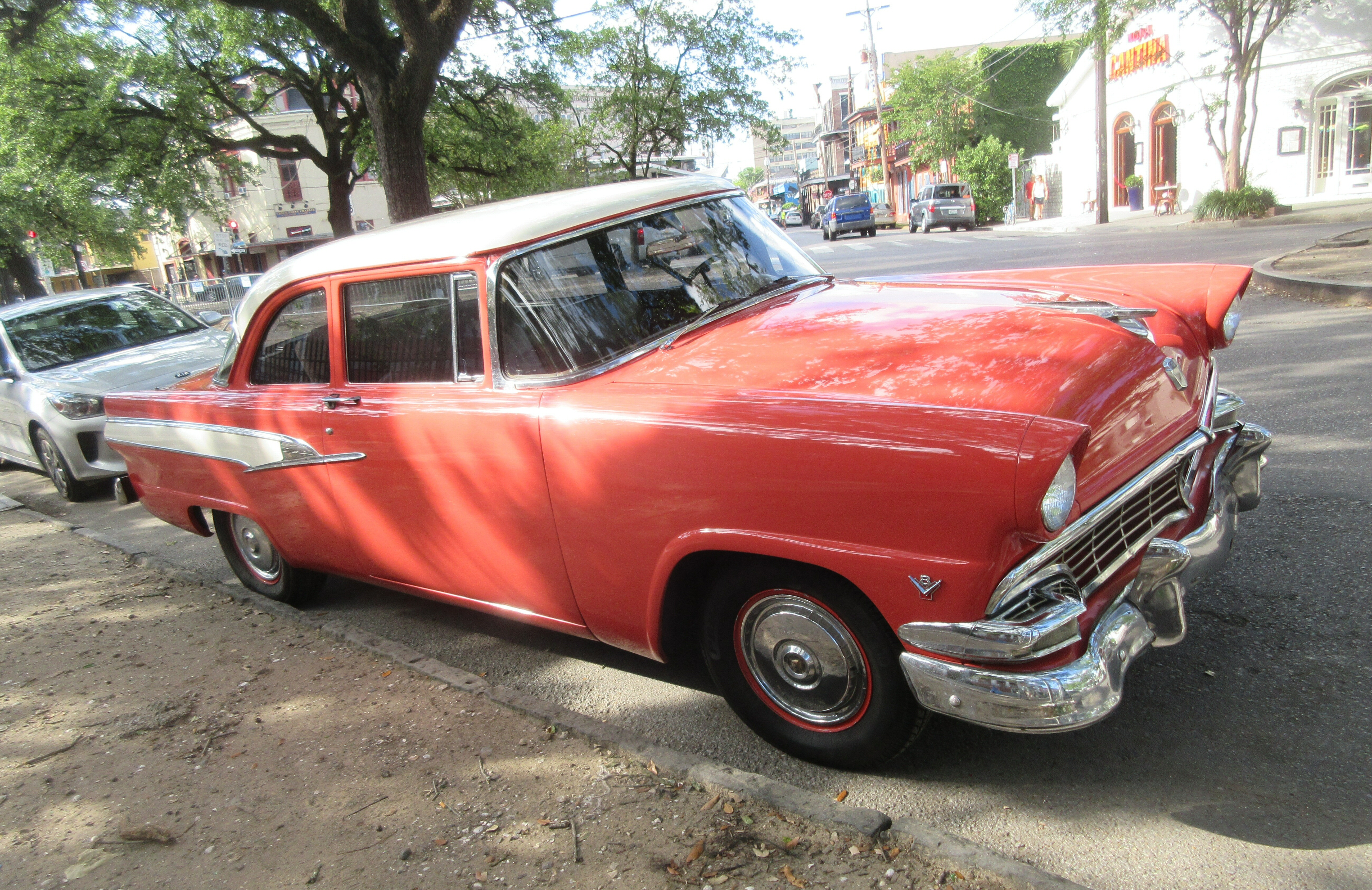 1956 Ford on Esplanade Avenue, French Quarter, New Orleans.